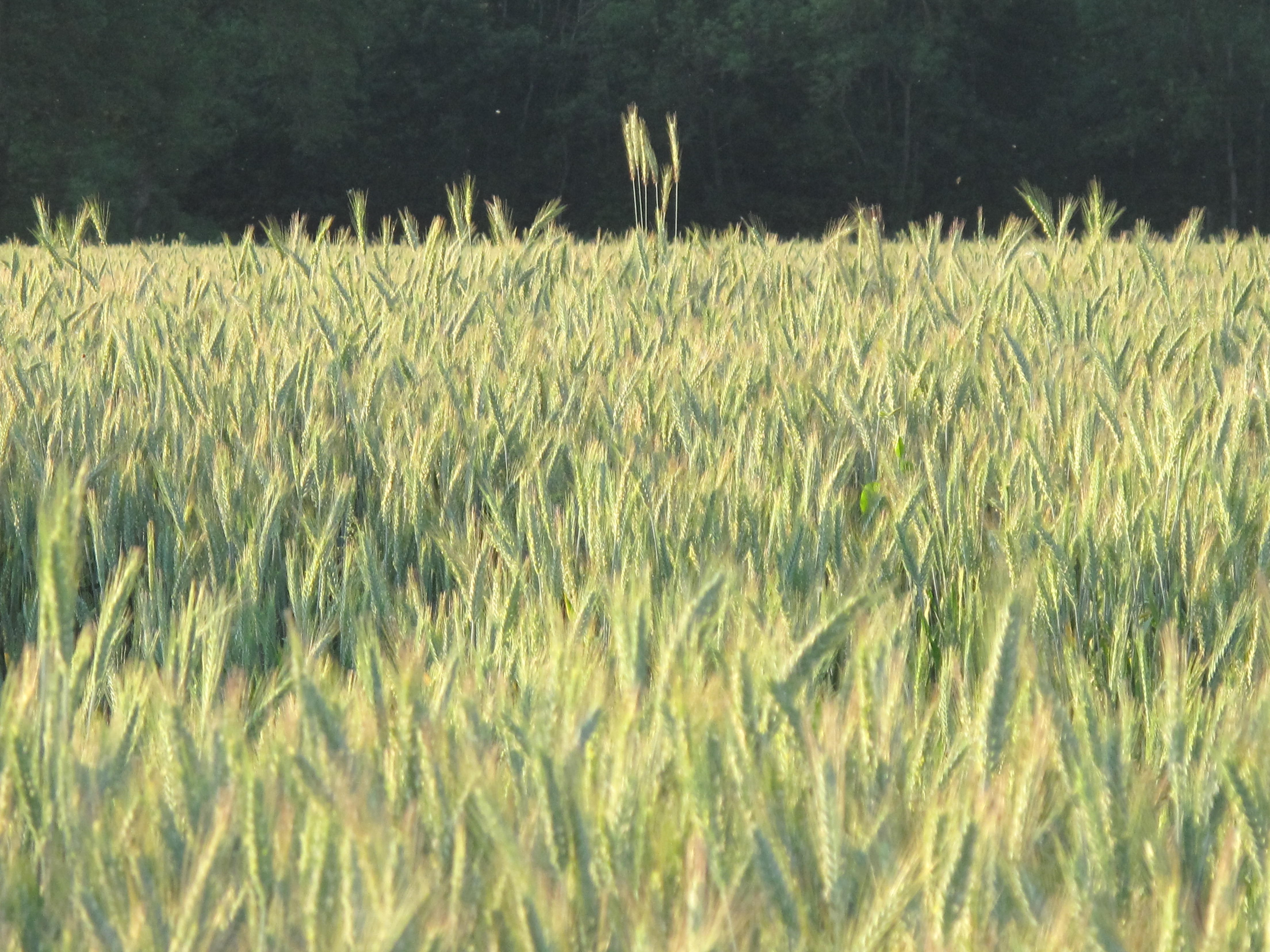 Wheat field in Arbigny (Ain, France).